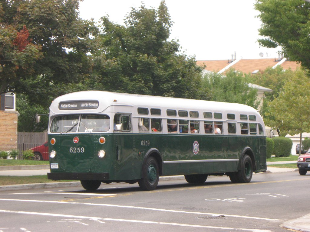 Mack C-49-DT #6259 (1956) operates through Belle Harbor, Queens on an excursion.